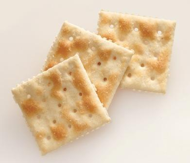 Nabisco PREMIUM Saltines